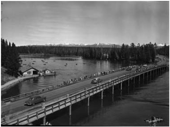 Fishing Bridge ca 1951 in Yellowstone National Park from Schullery, Paul (2010) "World War II and Mission 66 at Fishing Bridge" in Nature and Culture at Fishing Bridge-A History of the Fishing Bridge Development in Yellowstone National Park, National Park Service, Yellowstone Center for Resources Yellowstone National Park, Wyoming, p. 54